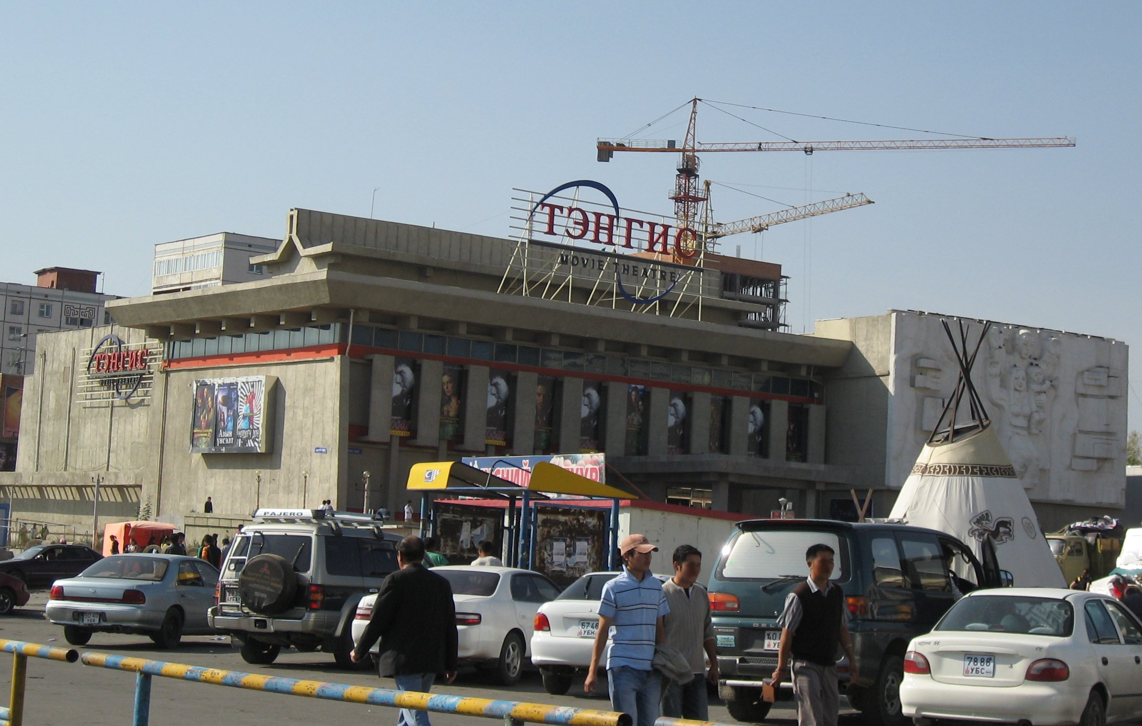 Tengis movie theater in UlaaBaatar in Mongolia Photo de / Picture by Jgremillot